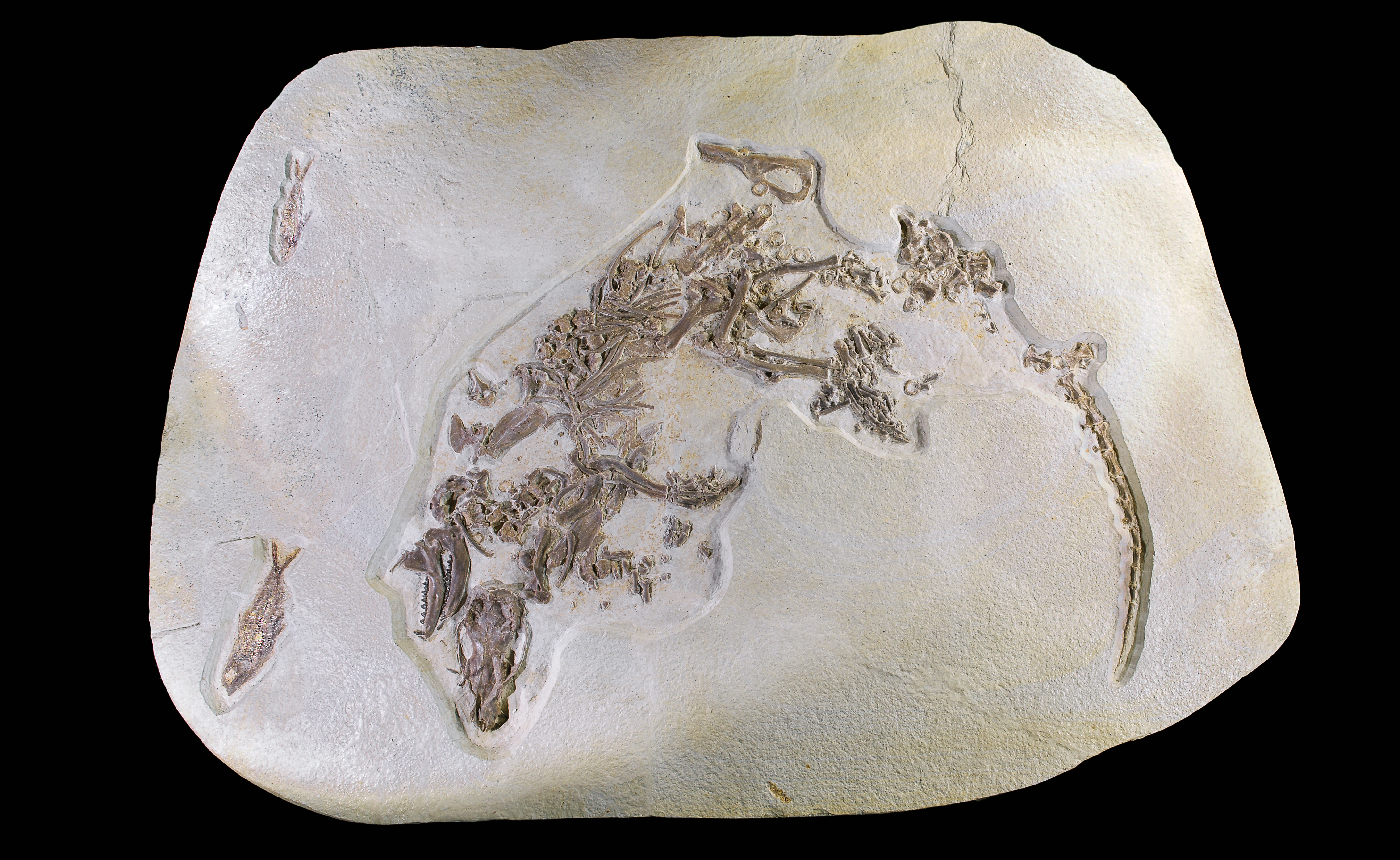 Palaeosinopa sp. (extinct family of semi-aquatic, placental mammals) Locality : Green river formation Wyoming USA Stage: Eocene Size 64 x 47 cm